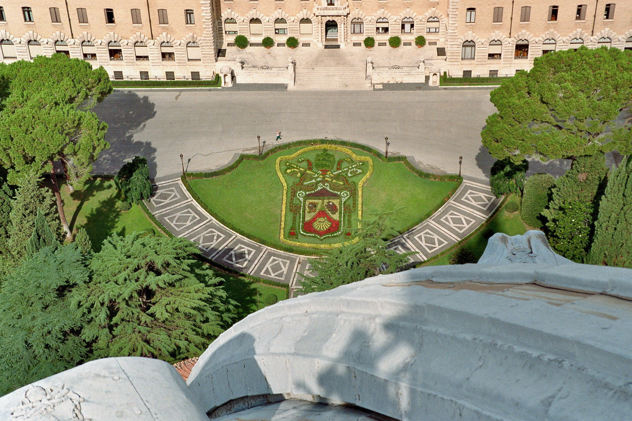 Vatican Gardens in Rome (Italy) mit the coat of arms of Pope Benedict XVI. made from flowers, seen from the outside of the dome of St. Peter's Cathedral